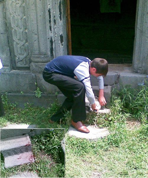 Matagh (animal sacrifice) of a rooster at the entrance of a monastery church (Alaverdi, Armenia, 2009), with cropped detail of bloody steps.